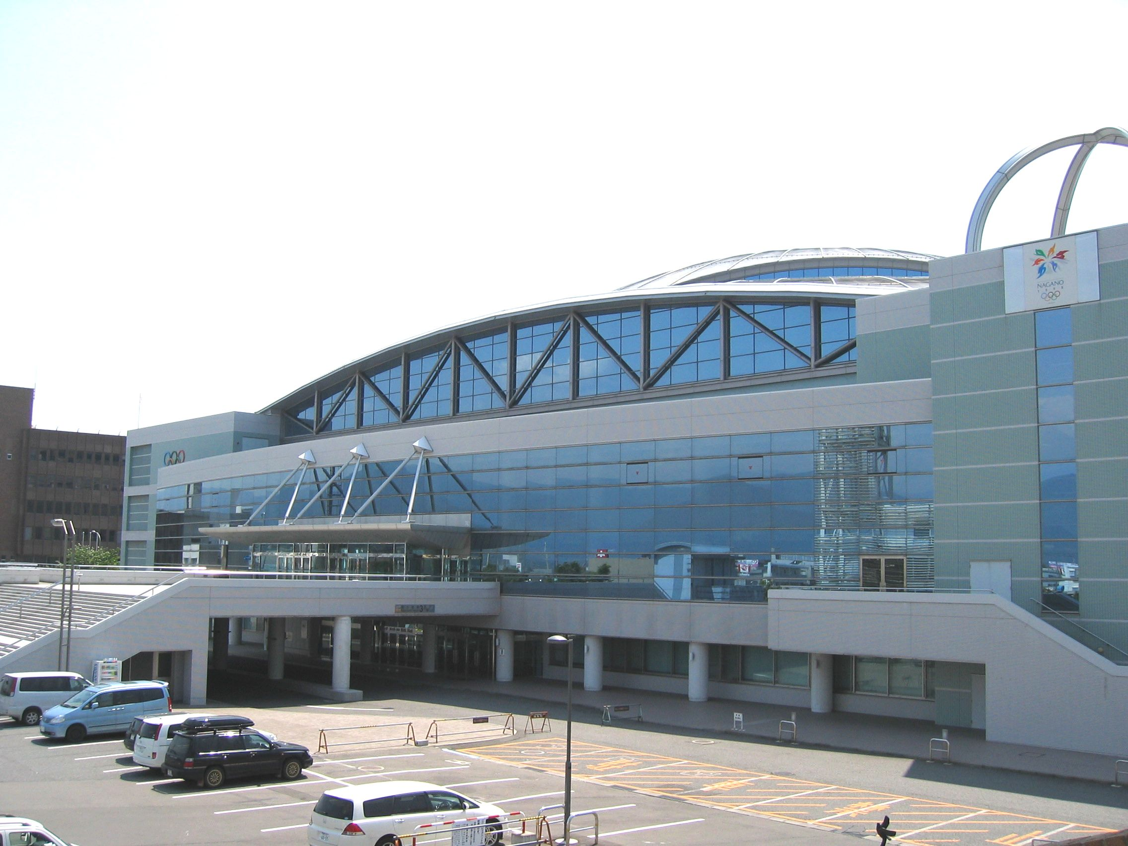 Big Hat is multipurpose sports arena in Nagano, Japan. It was built for a venues of 1998 Winter Olympics.